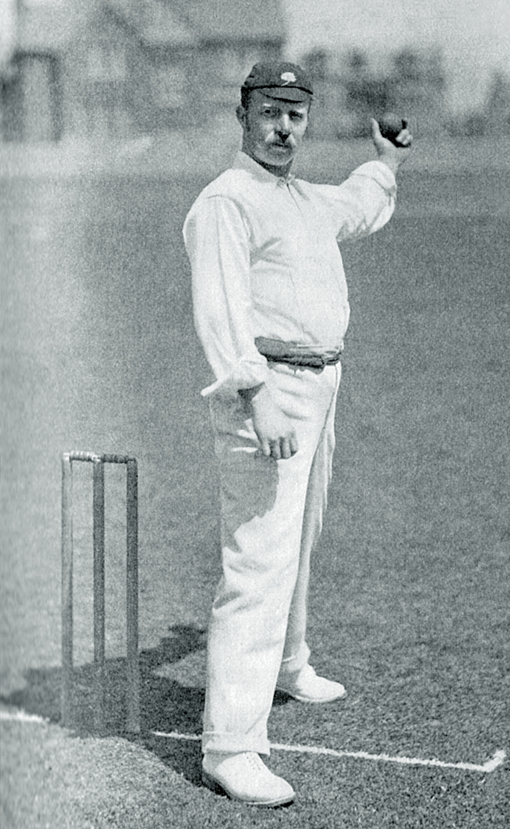 "Peel in the act of delivery."